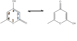 Tautomerization of Triacetic Acid Lactone